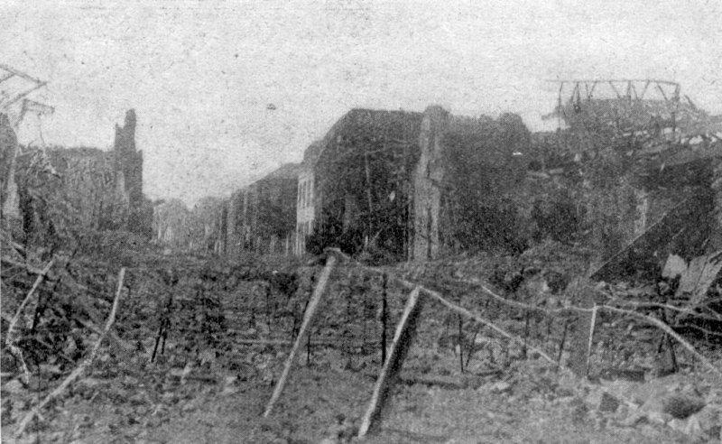 German wire entanglements in the French town of Carency following the Second Battle of Artois, May 1915. Original caption A street in Carency, the village in north-eastern France where the French troops gained such a conspicuous victory last month. The remains of some of the Germans' wire entanglements are seen in the foreground.